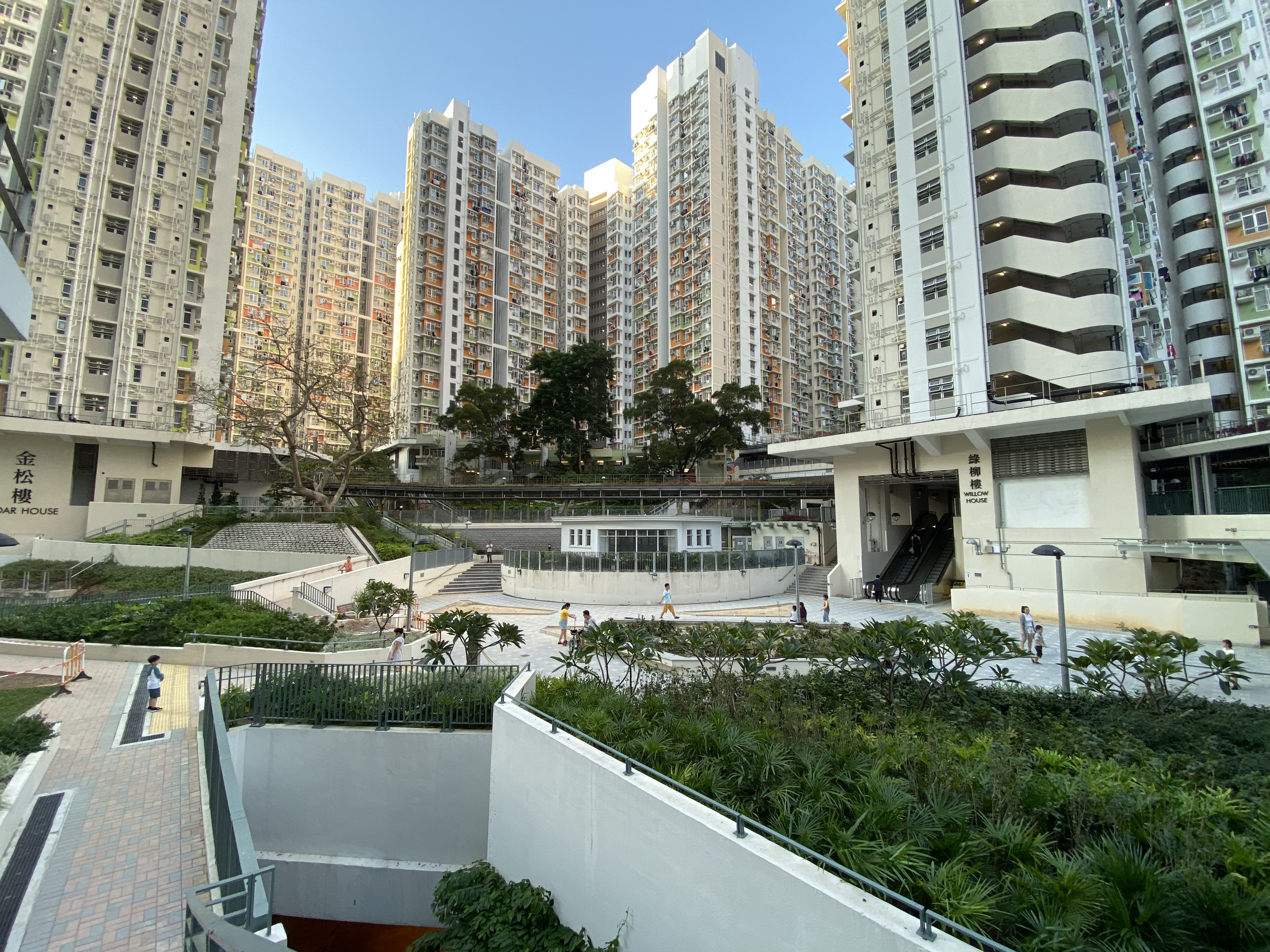 So Uk Estate Swallow Plaza